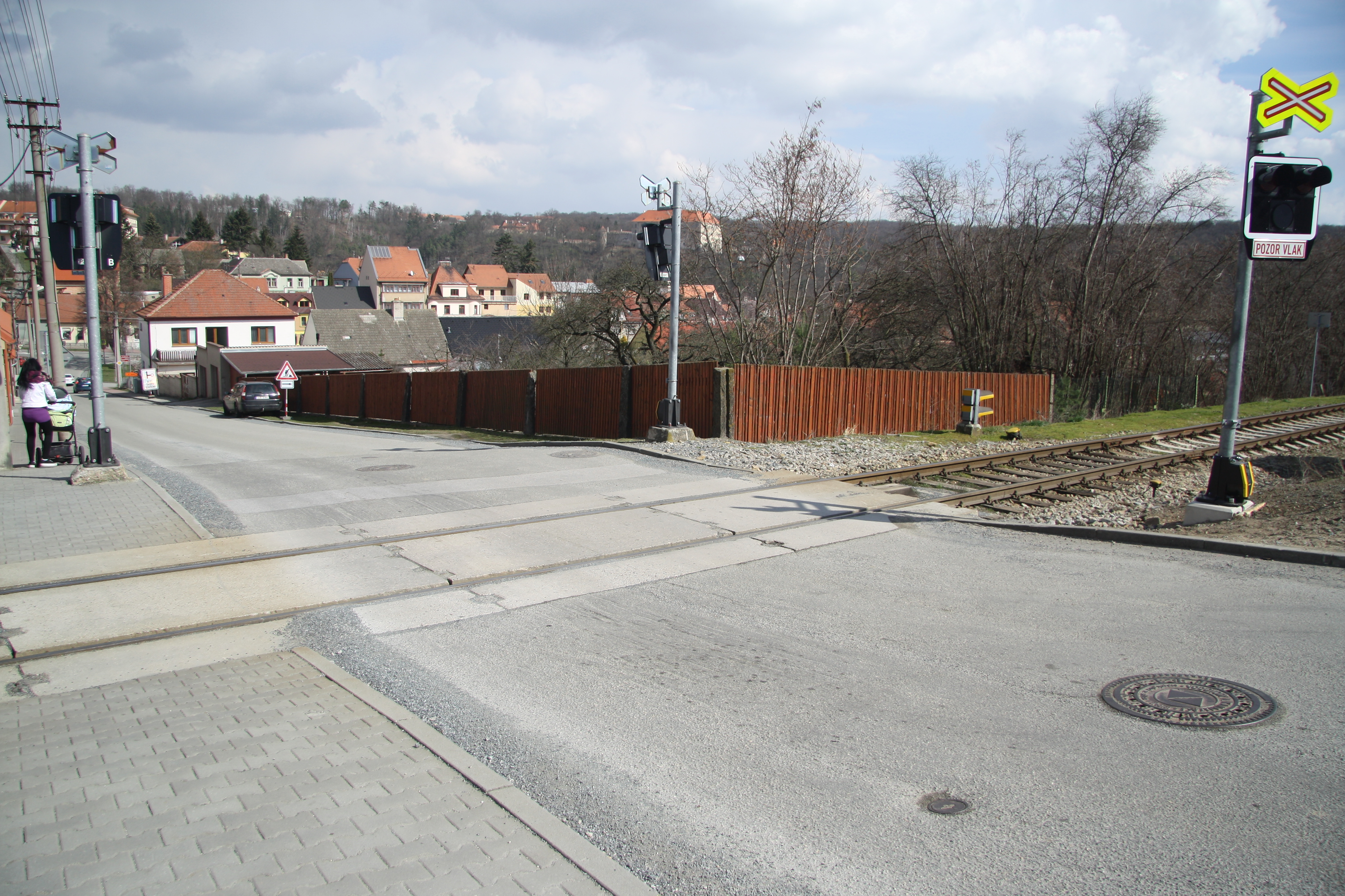 Railroad crossing P3841 at B. Němcové street in Náměšť nad Oslavou, Třebíč District.